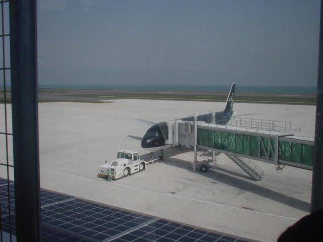 StarFlyer Airbus A320-20 at New Airport. Photograph taken by uploader